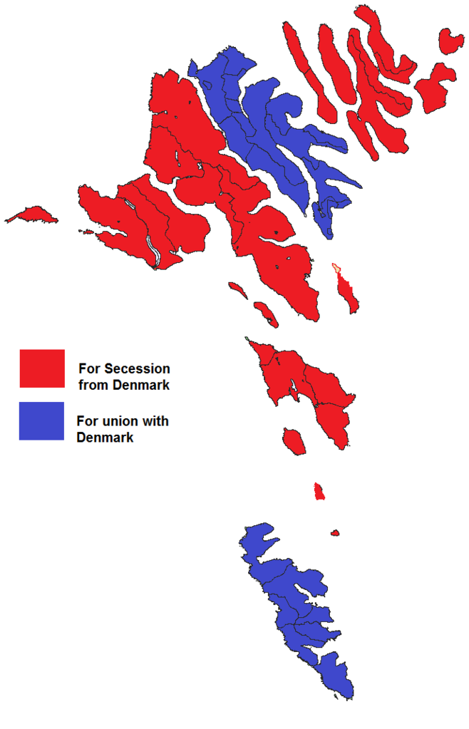 Faroese independence referendum, 1946 results by island